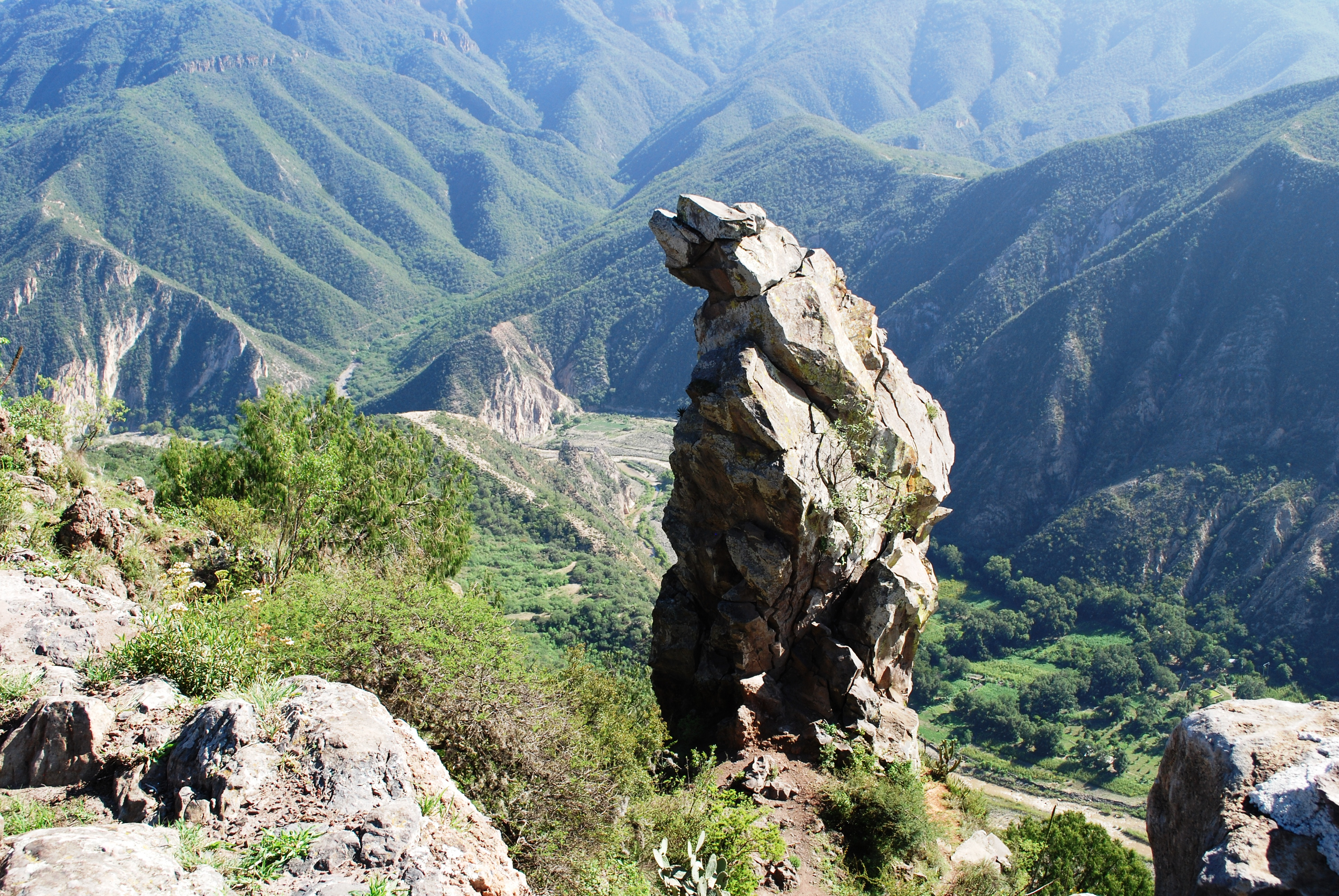 View of the Peña del Aire in Huasca de Ocampo, Hidalgo, Mexico